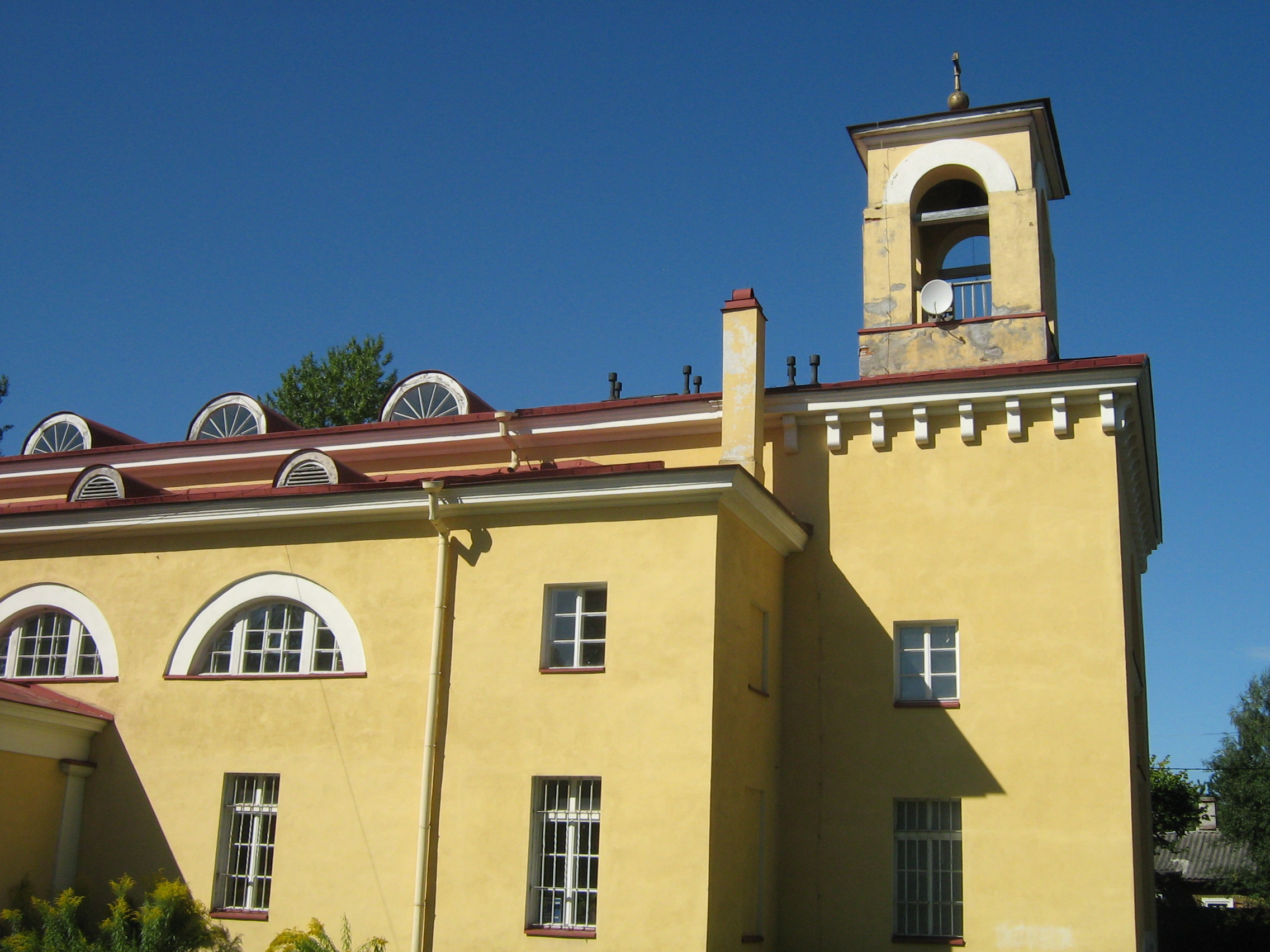 Saint Petersburg (Russia), Lomonosov.